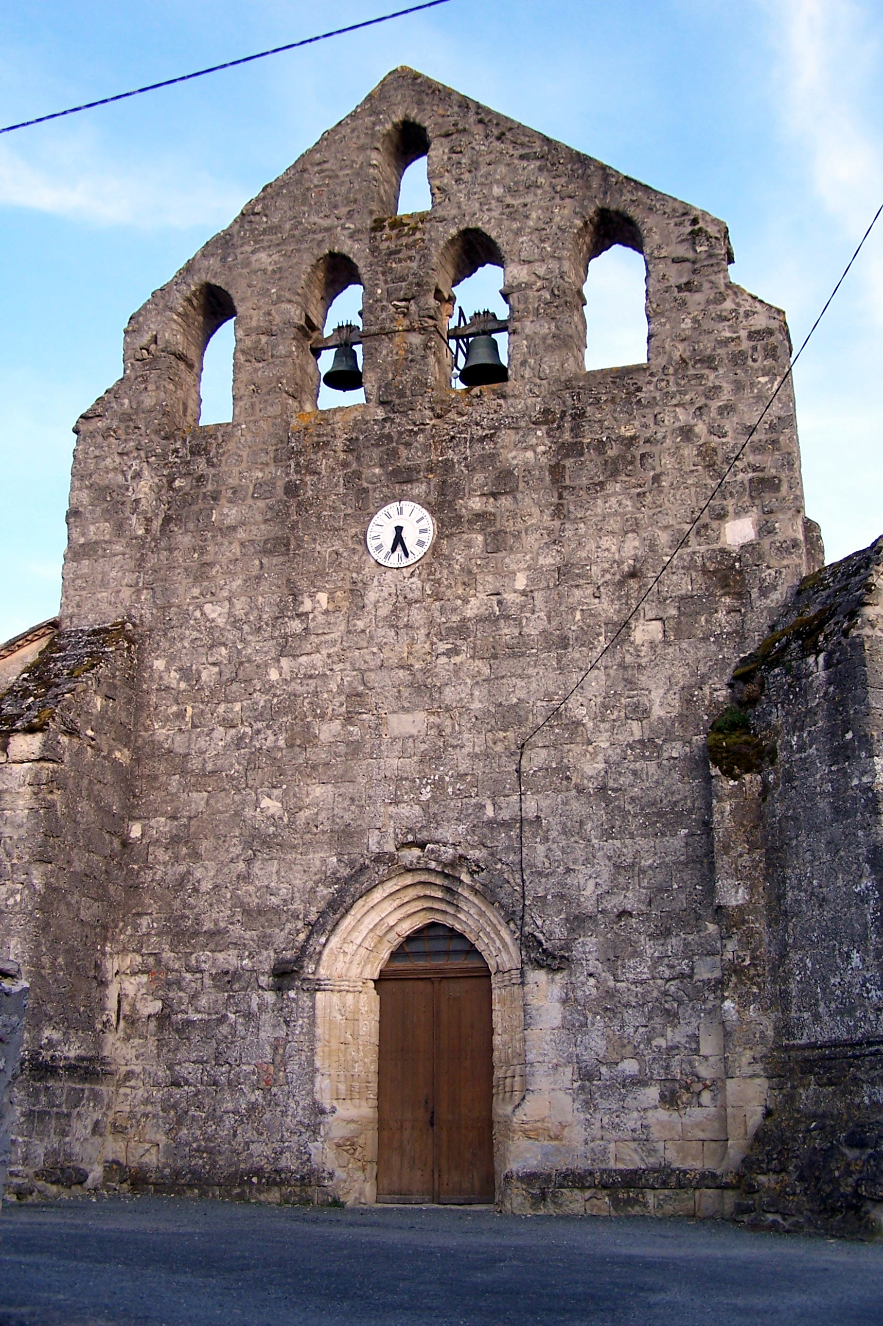 Church Notre-Dame of Taillecavat (Gironde, France)